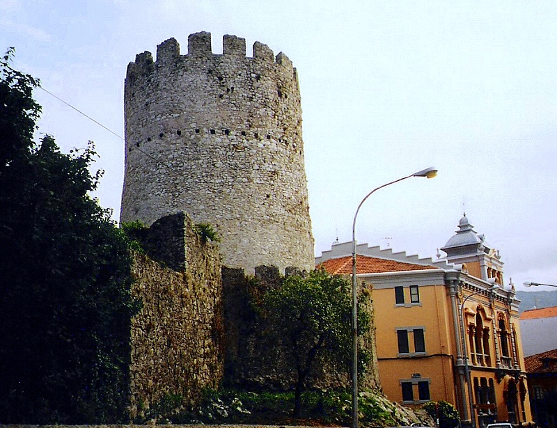 Llanes - Tower of the twelfth century. It is the only one that preserves a fortress that faced various attacks, including the Drke in 1586Asturias´05